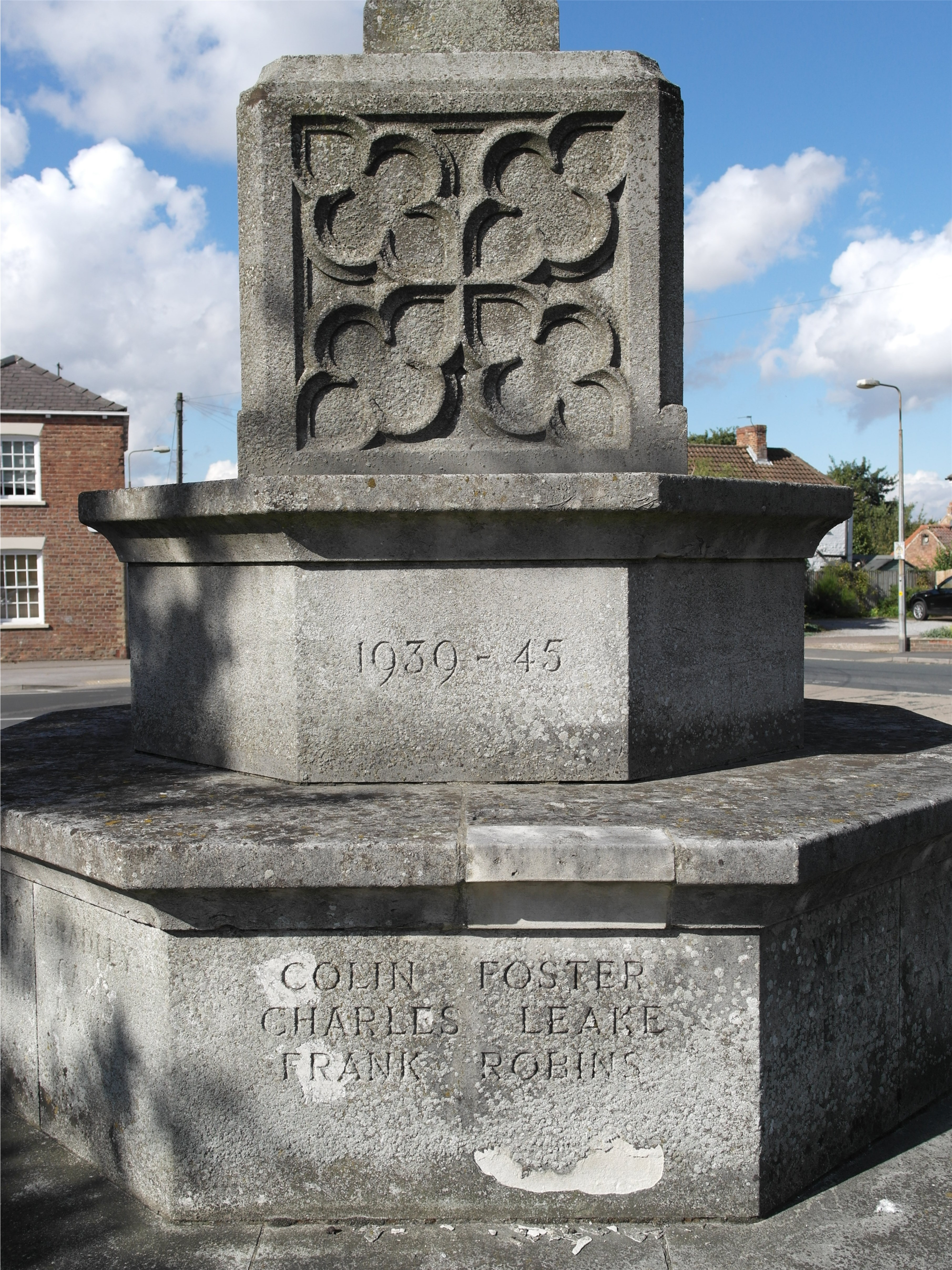 North Cave, East Riding of Yorkshire, England.The memorial is dedicated to the men of the village who fell in both world wars and one who fell in Malaya 1951.